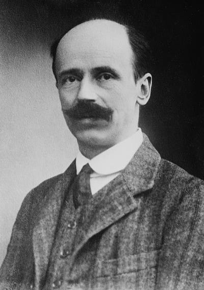 Hungarian Prime Minister Count István Bethlen (1874 - 1946)